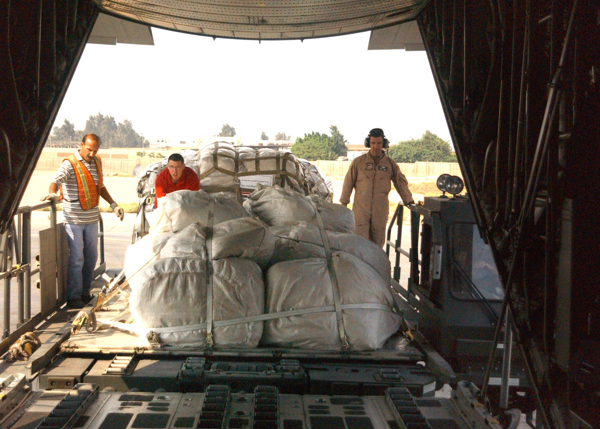 Cairo, Egypt (Oct. 21, 2005) - Aviation Ordnanceman 3rd Class Wayne Patton, from Bucks County, Pa., far right, assigned to Fleet Logistics Support Squadron Six Four (VR-64) helps to load pallets of food, and re-building supplies donated by the government of The Arab Republic of Egypt, aboard one of VR-64’s U.S. Navy C-130T Hercules cargo aircraft. The supplies will be flown to facilities in Manama, Bahrain, where they will be loaded aboard the U.S. Navy amphibious transport dock ship USS Cleveland (LPD 7) bound for Pakistan. The United States is participating in a multinational assistance and support effort led by the Pakistani Government to bring aid to the victims of the devastating earthquake that struck Pakistan on October 8, 2005. U.S. Navy photo by Photographer’s Mate 2nd Class Carolla Bennett (RELEASED)